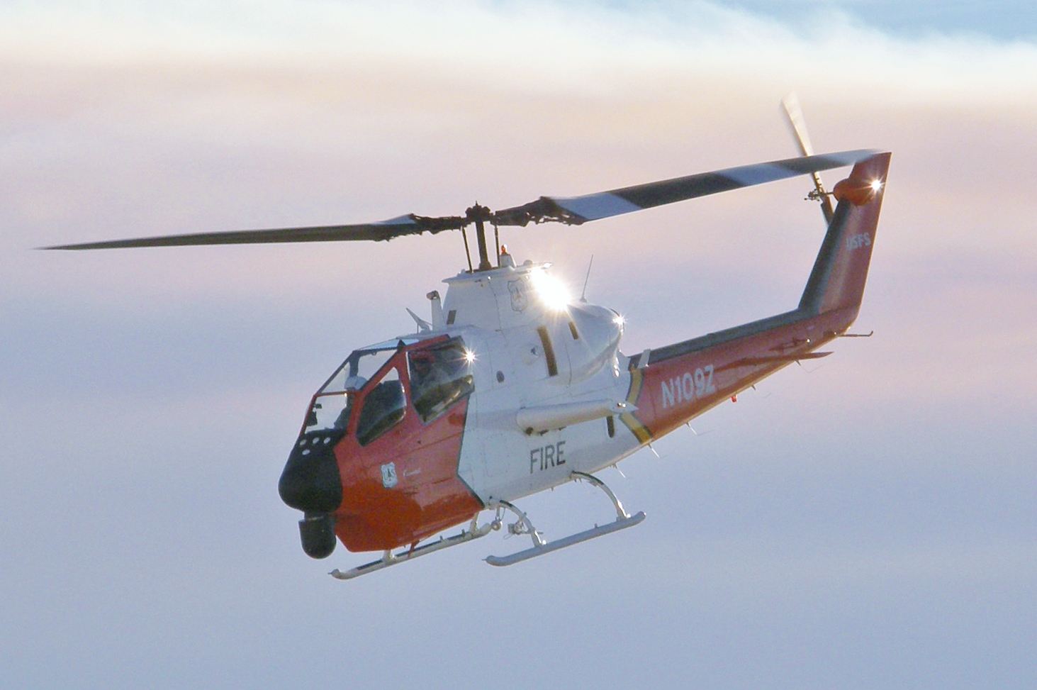 USFS AH-1